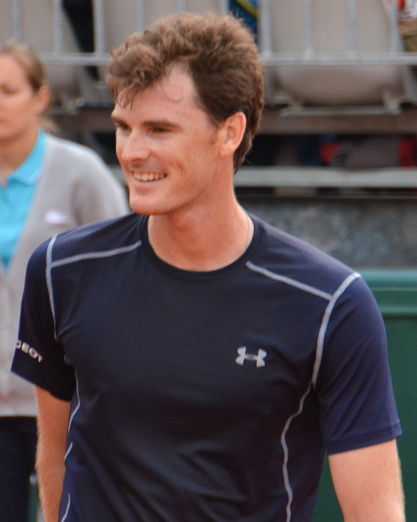 Day 5 of Roland Garros 2016.